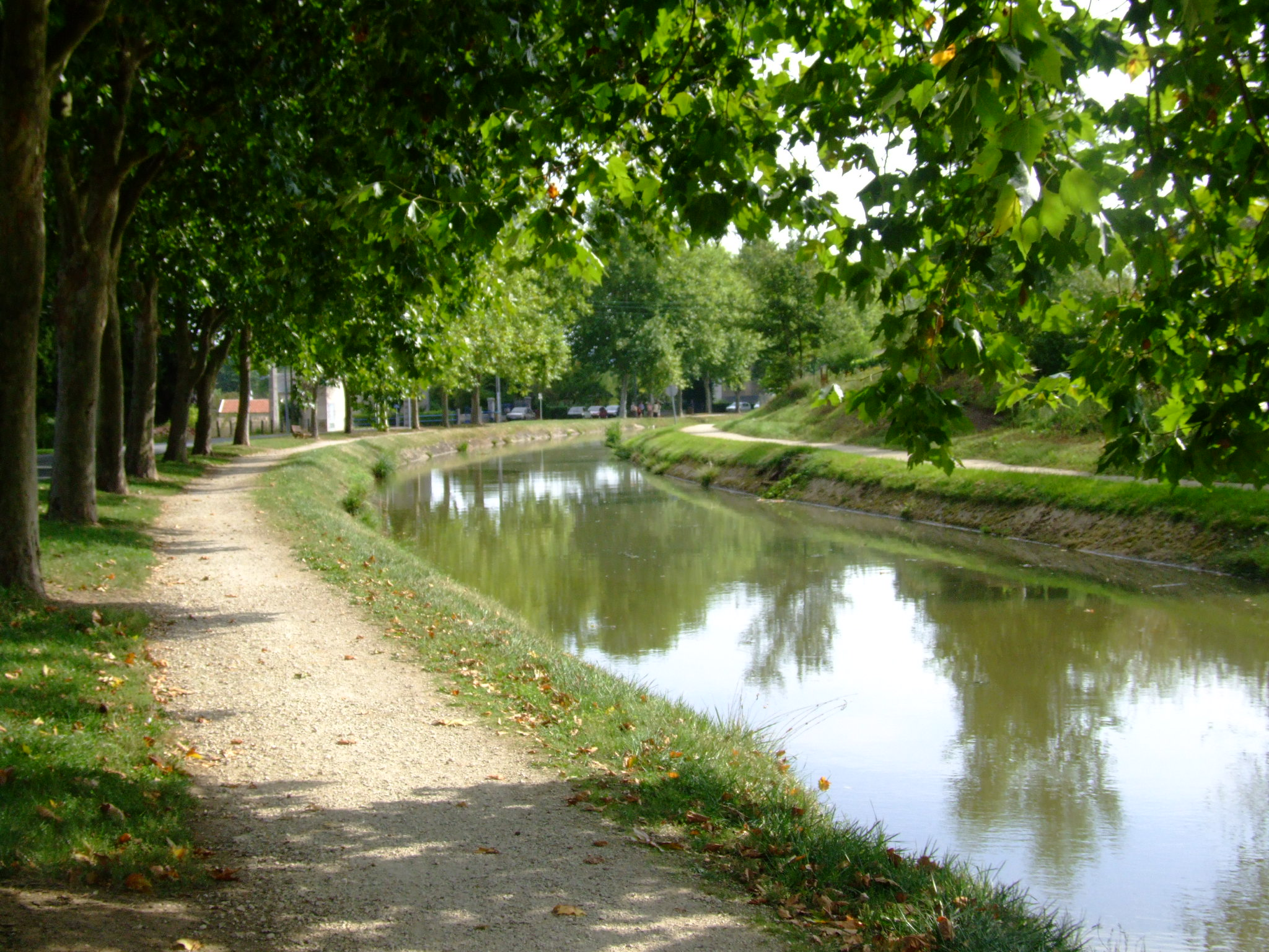 Saint-Amand-Montrond is a town in Cher, France. It is on the Cher (river), and the Canal du Berry. This is the Canal du Berry from the Rue de la Roche.